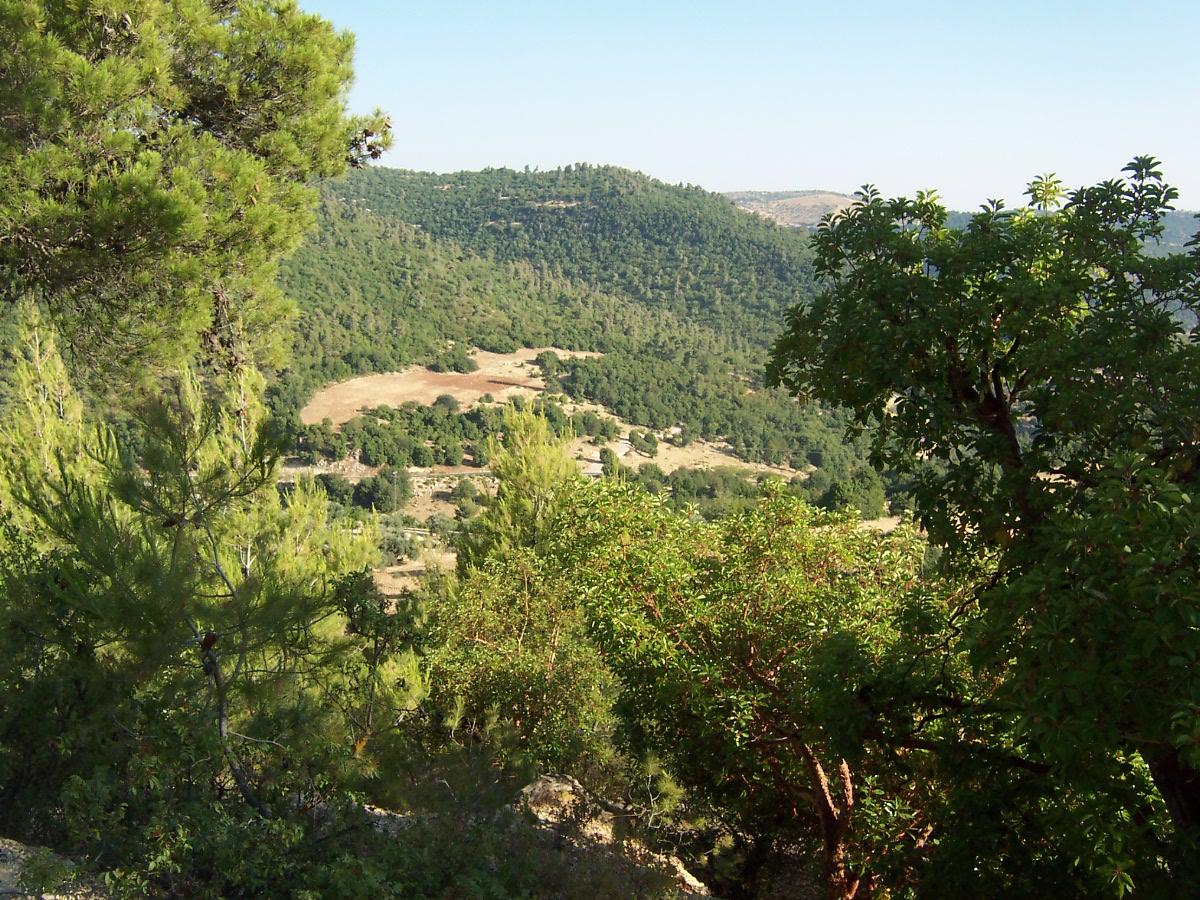 Ajloun, Jordan (also spelled 'Ajlun')